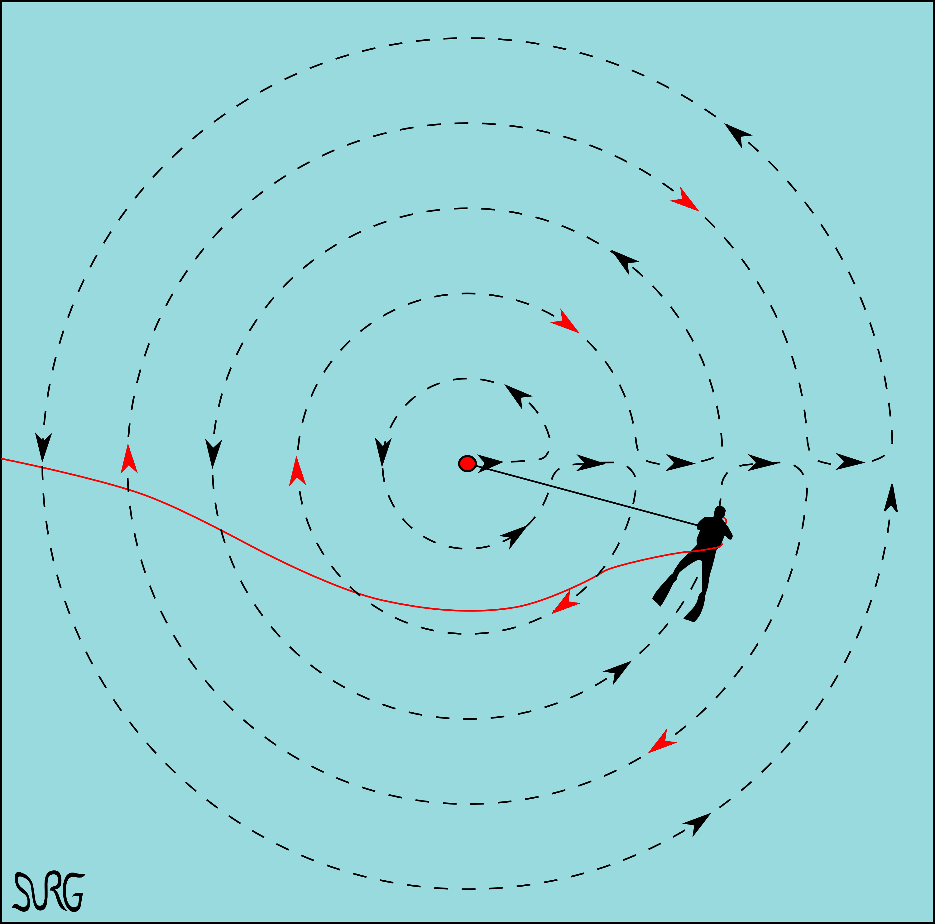 Illustration of underwater circular search pattern for solo diver with lifeline or umbilical